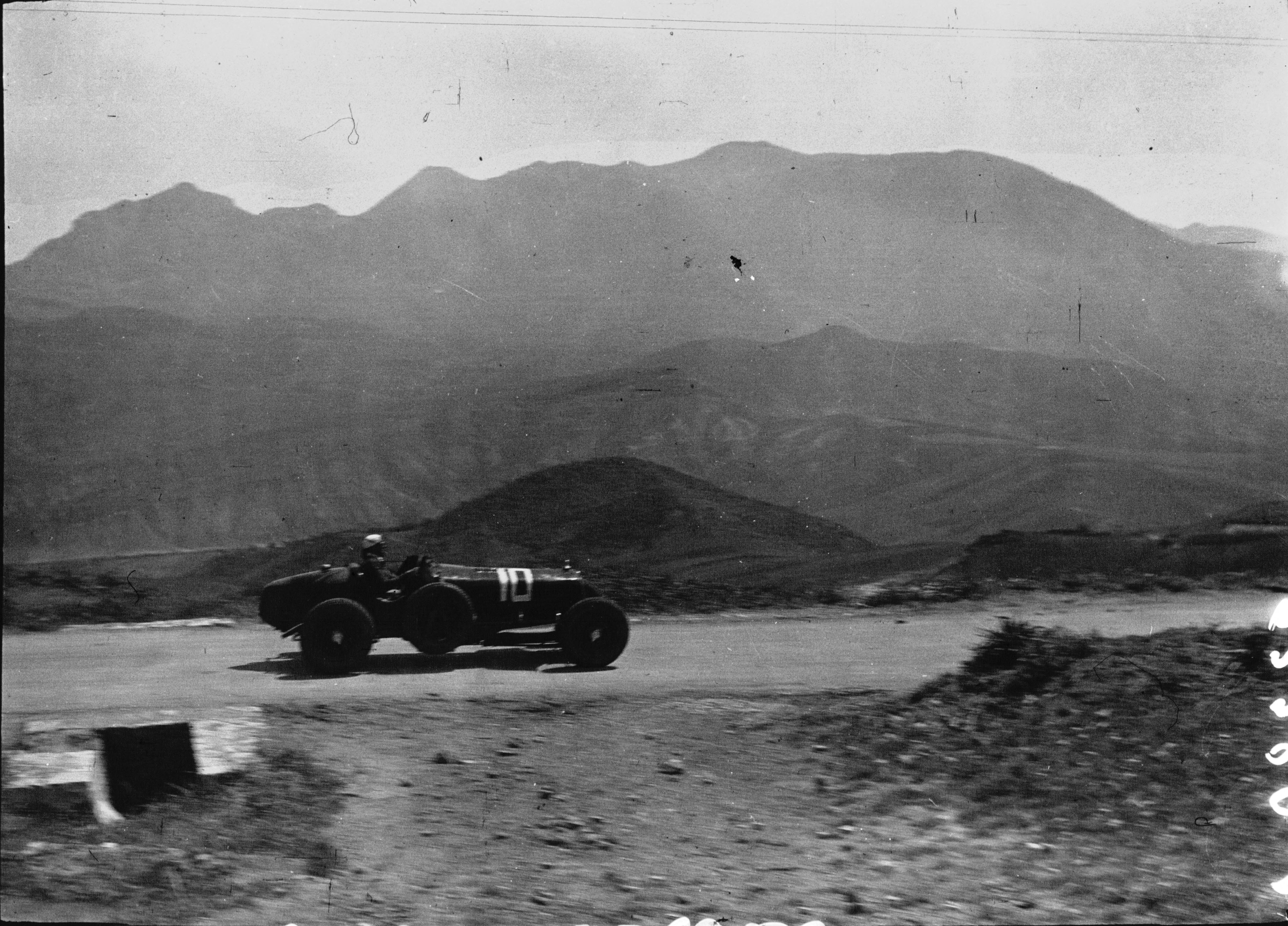 Tazio Nuvolari in his Alfa Romeos at the 1932 Targa Florio.